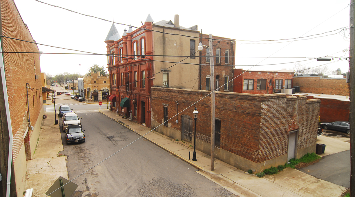 backside of one of the Victorian style banks in downtown Van Buren